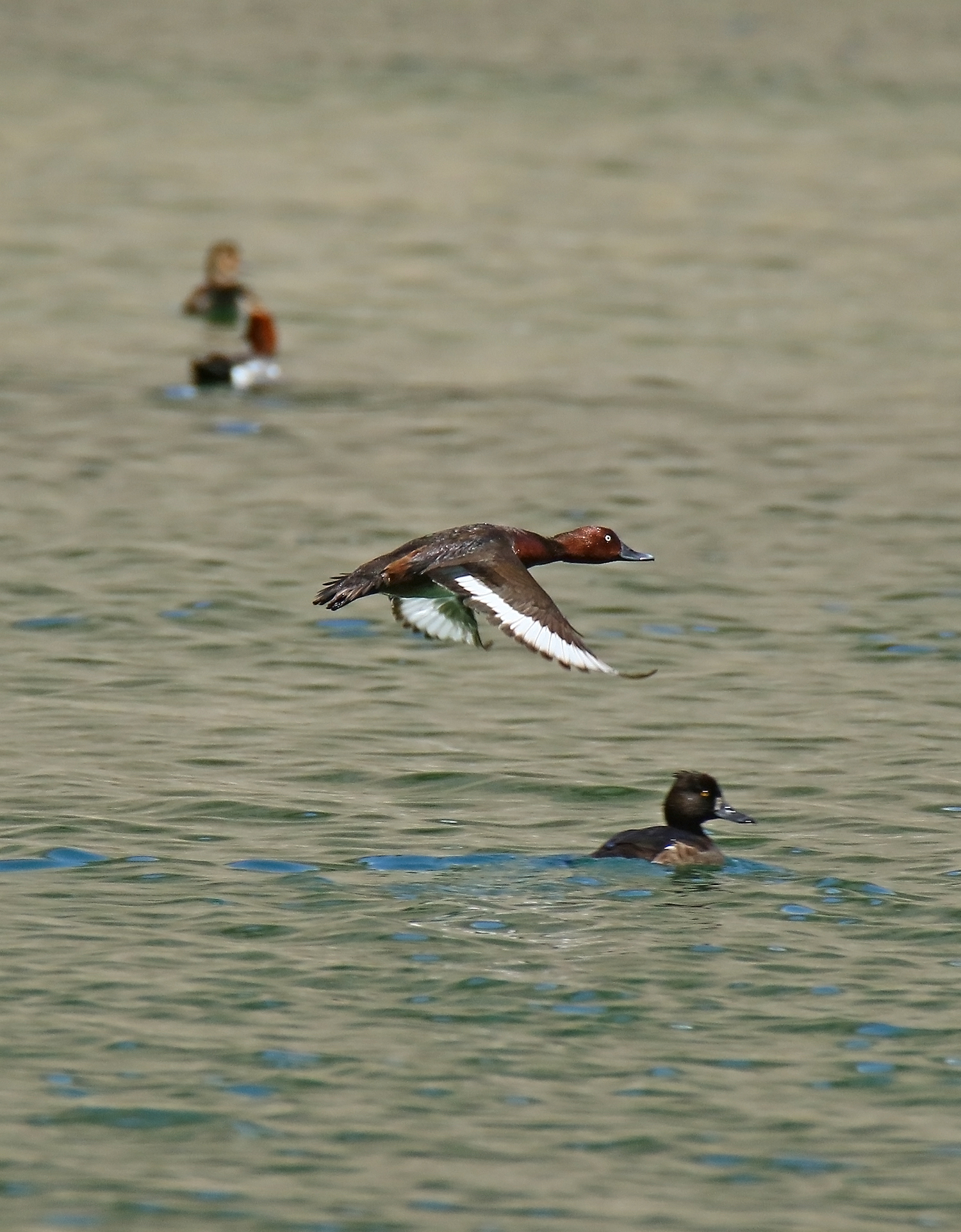 Ferruginous Pochard (Aythya nyroca) captured at Borit, Gojal, Gilgit-Baltistan, Pakistan with Canon EOS 7D Mark II